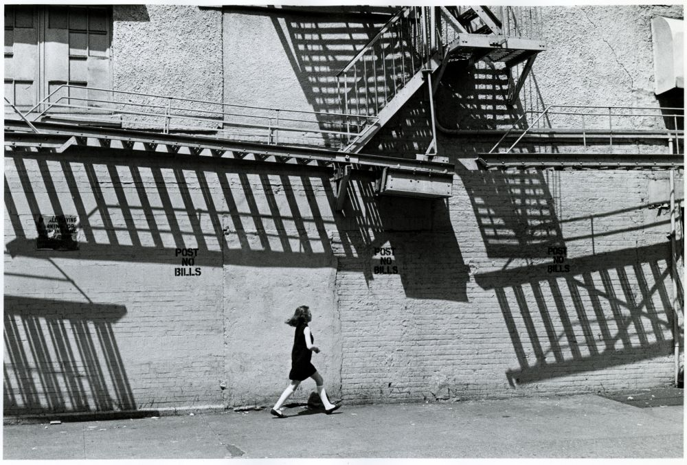 Accession Number: 2007:0275:0010 Maker: James Jowers (American b. 1938) Title: st. Marks Pl. Date: 1968 Medium: gelatin silver print Dimensions: Image: 16 x 23.8 cm Overall: 20.4 x 25.2 cm George Eastman House Collection General – information about the George Eastman House Photography Collection is available at For information on obtaining reproductions go to